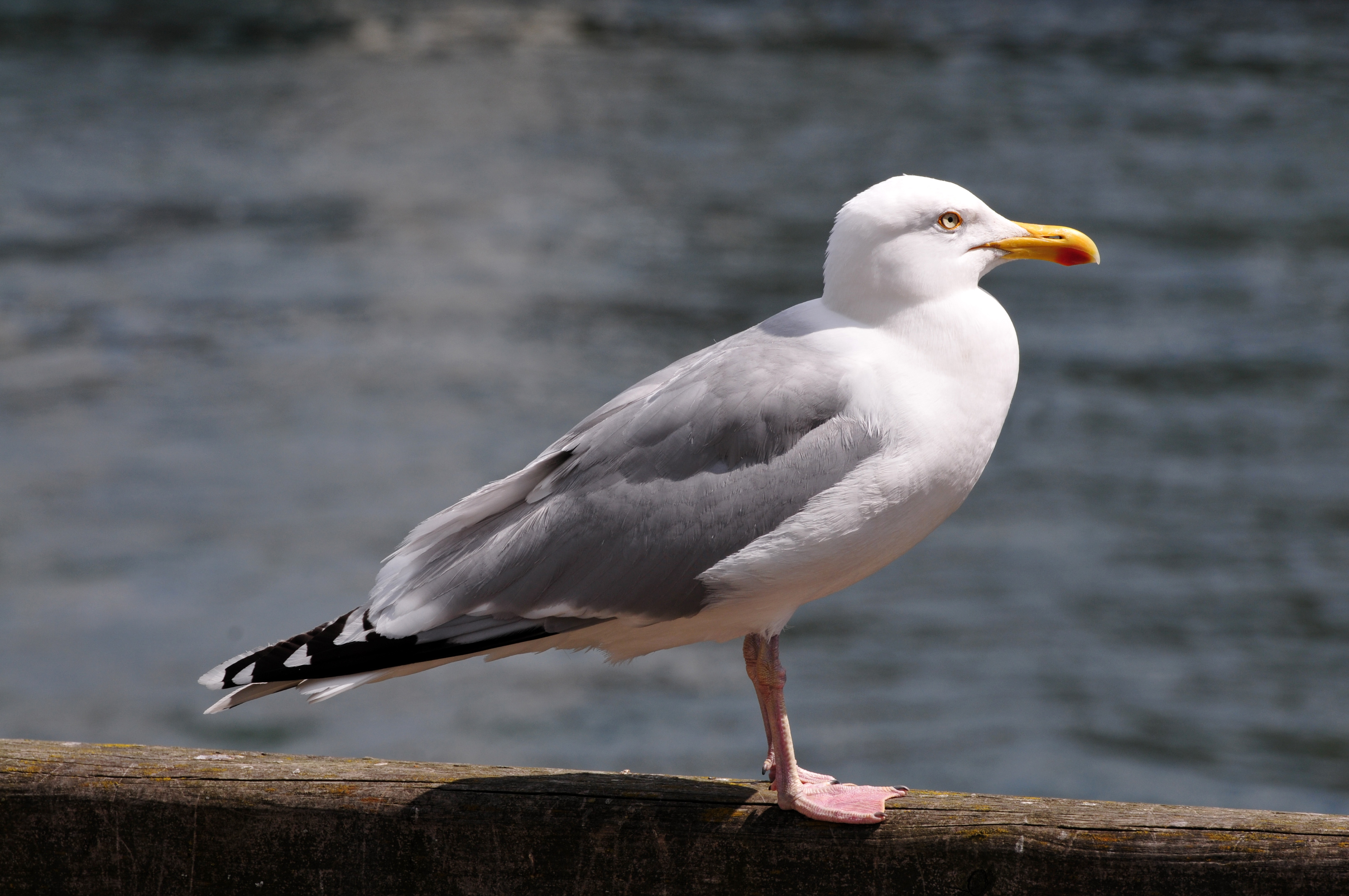 Warnemünde, Baltic Sea, Germany, Larus argentatus